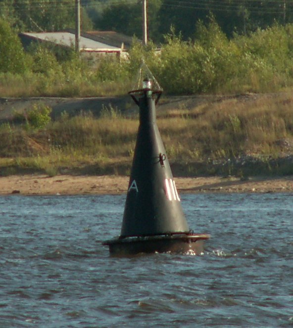 Black buoy on Volga River, near Yaroslavl, Russia. Photo by User:Monedula Place: Yaroslavl Oblast, Russia Date: 2006-07-04